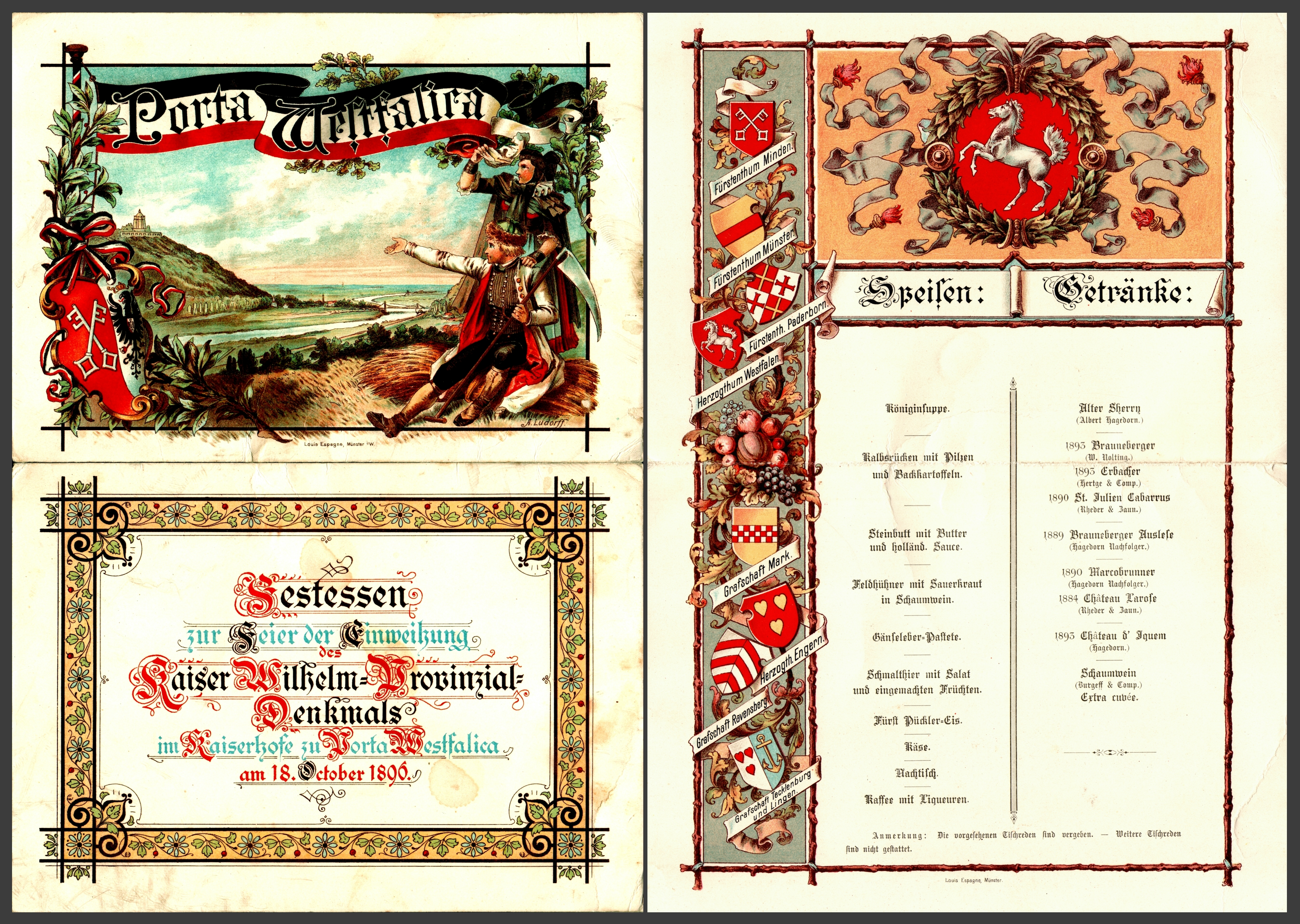 Menu for the banquet at the inauguration of Emperor William Monument, in the Hotel Kaiserhof at Porta Westfalica, Germany on 18 October 1896.